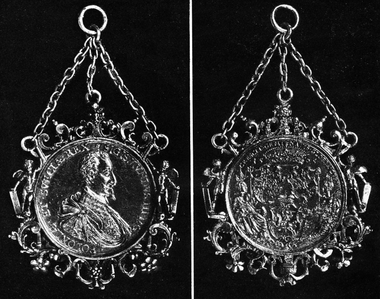 Photograph